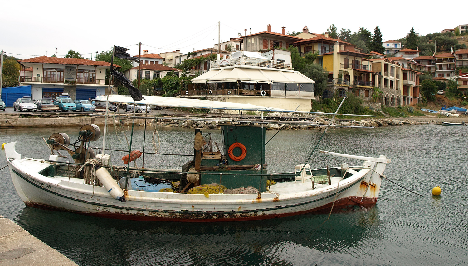 Pergidika harbor Sithonia, Hakidiki, Greece